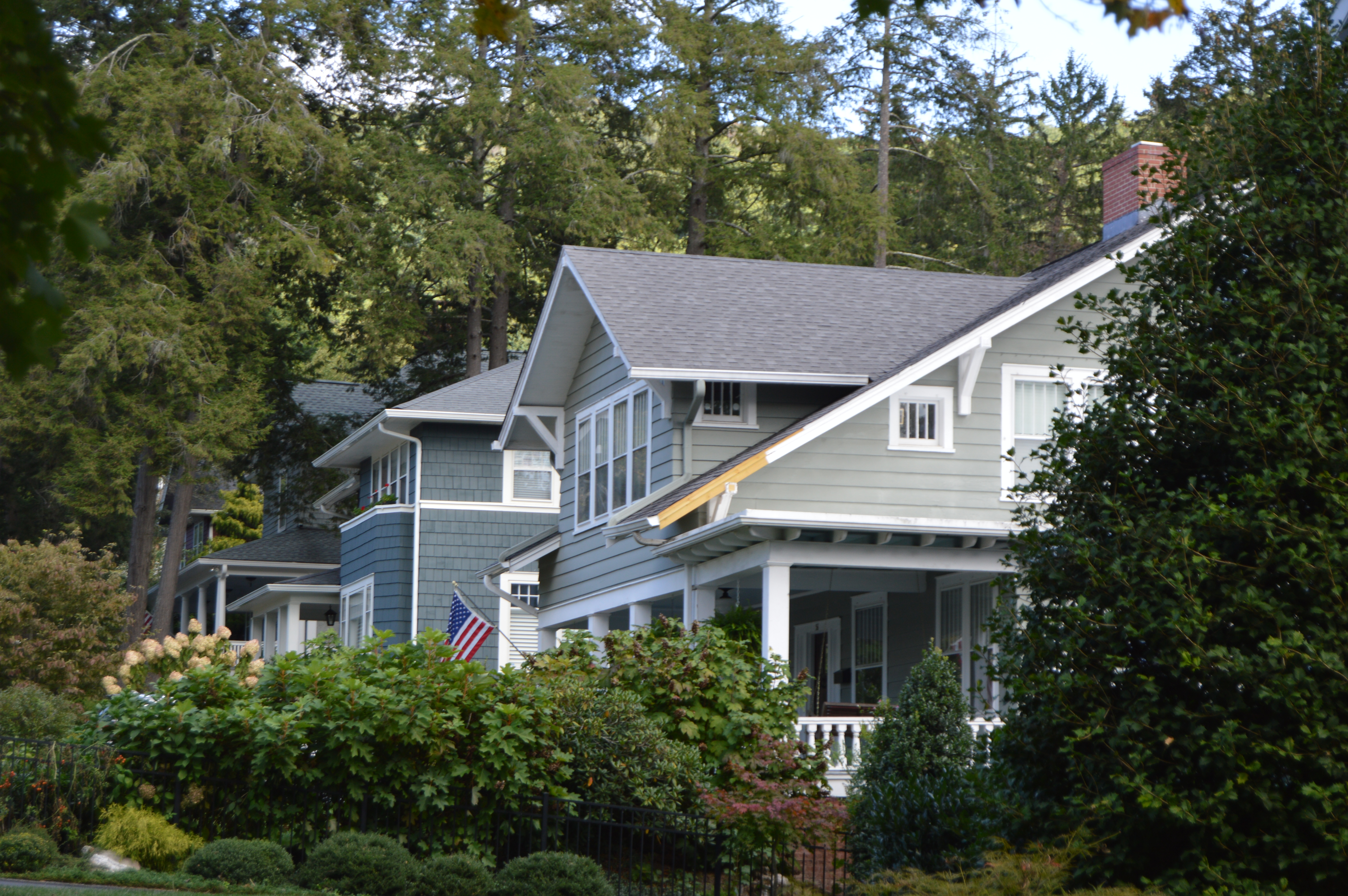 Houses on the southern side of Edgemont Road, between Latrobe Street and Holmwood Road, in Asheville, North Carolina, United States. This block is part of the Proximity Park Historic District, a historic district that is listed on the National Register of Historic Places.